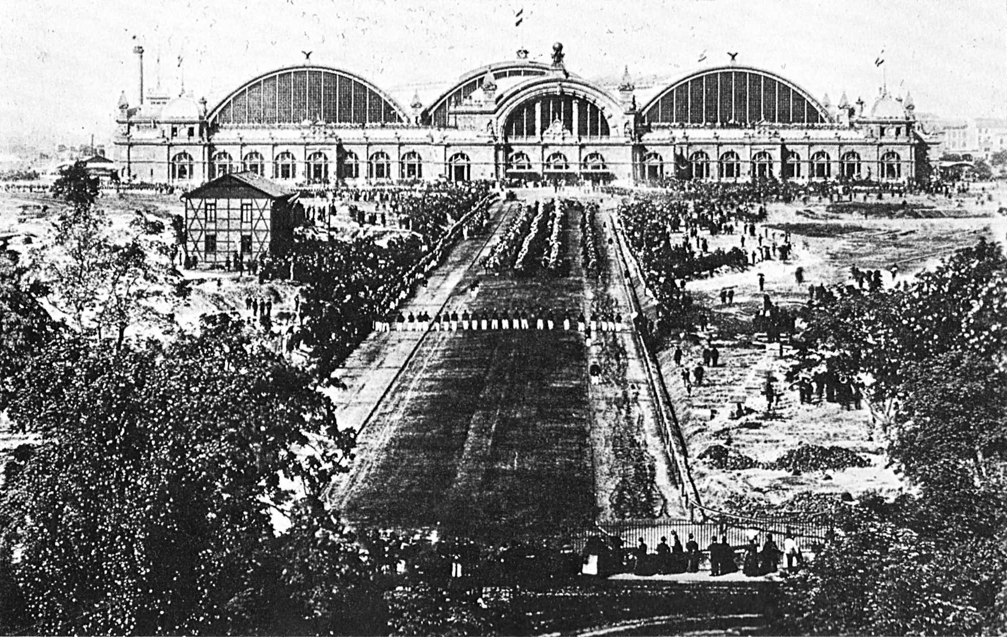 Parade on the Kaiserstraße in Frankfurt in honor of Umberto I of Italy